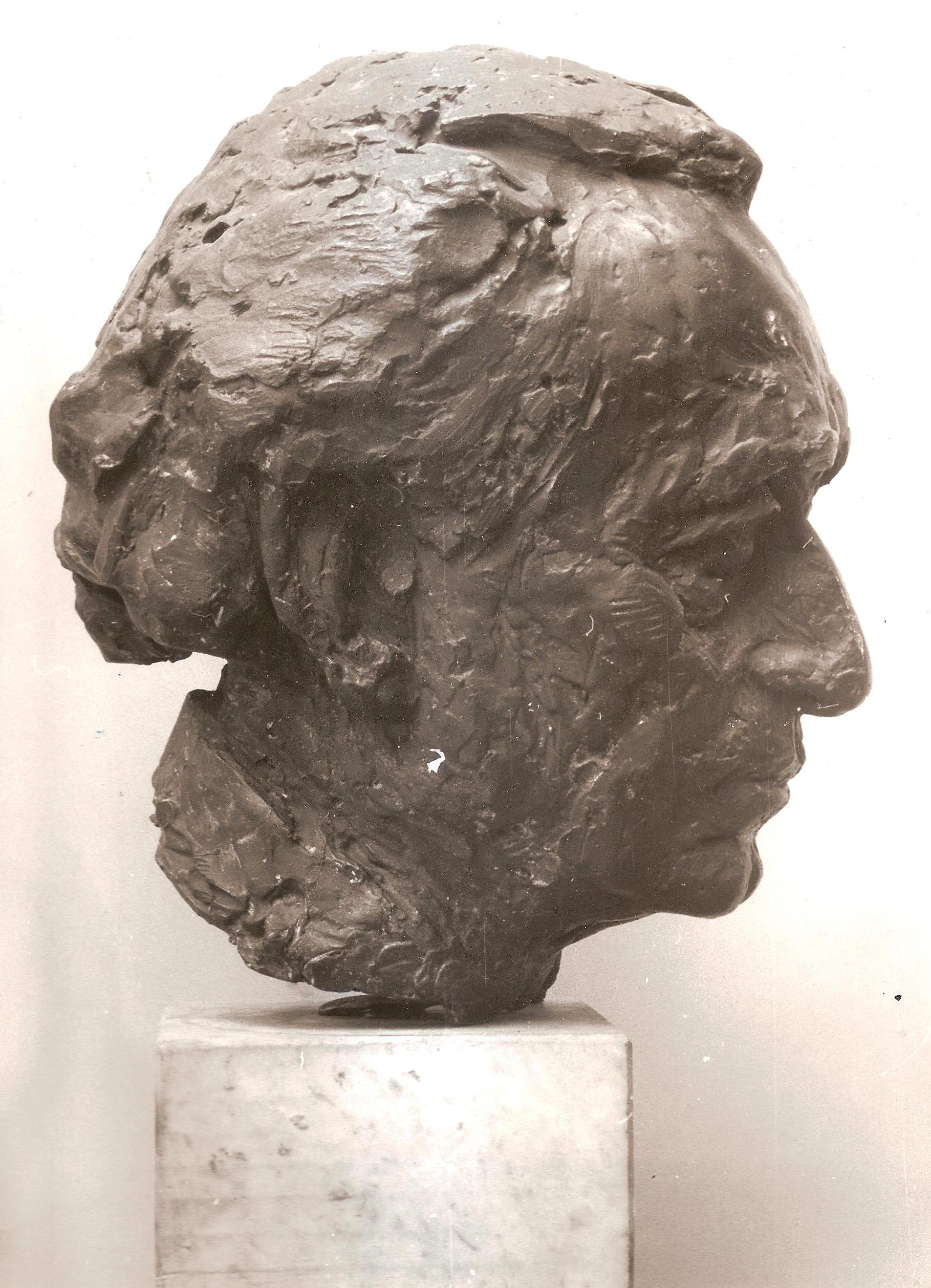 Bust of conductor Liberated and the National Theatre prof. Robert Brock from academic sculptor Jaroslava Lukešová (1920-2007).